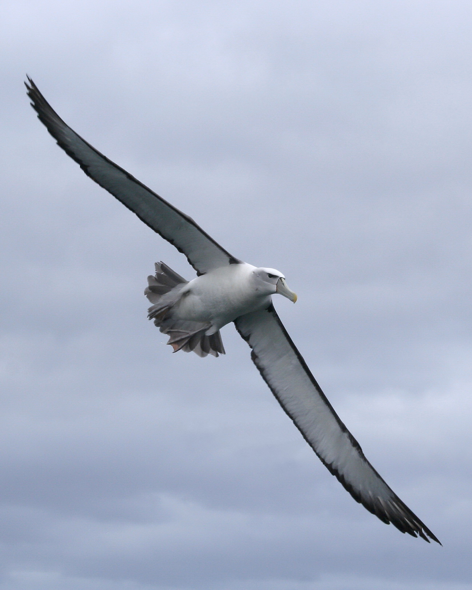 Shy Albatross, Thalassarche cauta; wild bird.